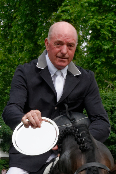 internationales Pfingstturnier 2014 Wiesbaden Welfenhofpreis CSI*** The making of this document was supported by the Community-Budget of Wikimedia Germany.